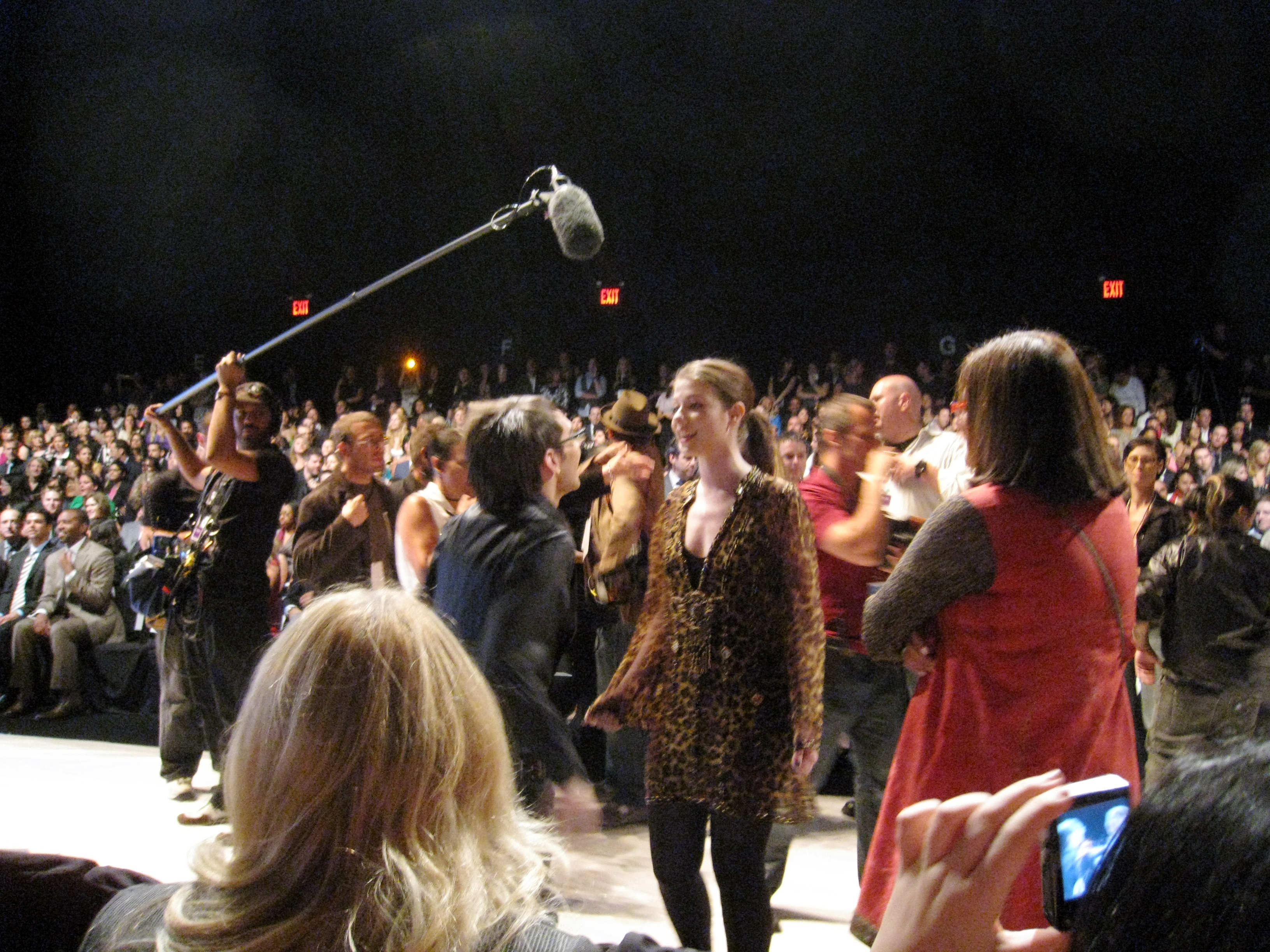 American actress Michelle Trachtenberg, presumably doing an interview